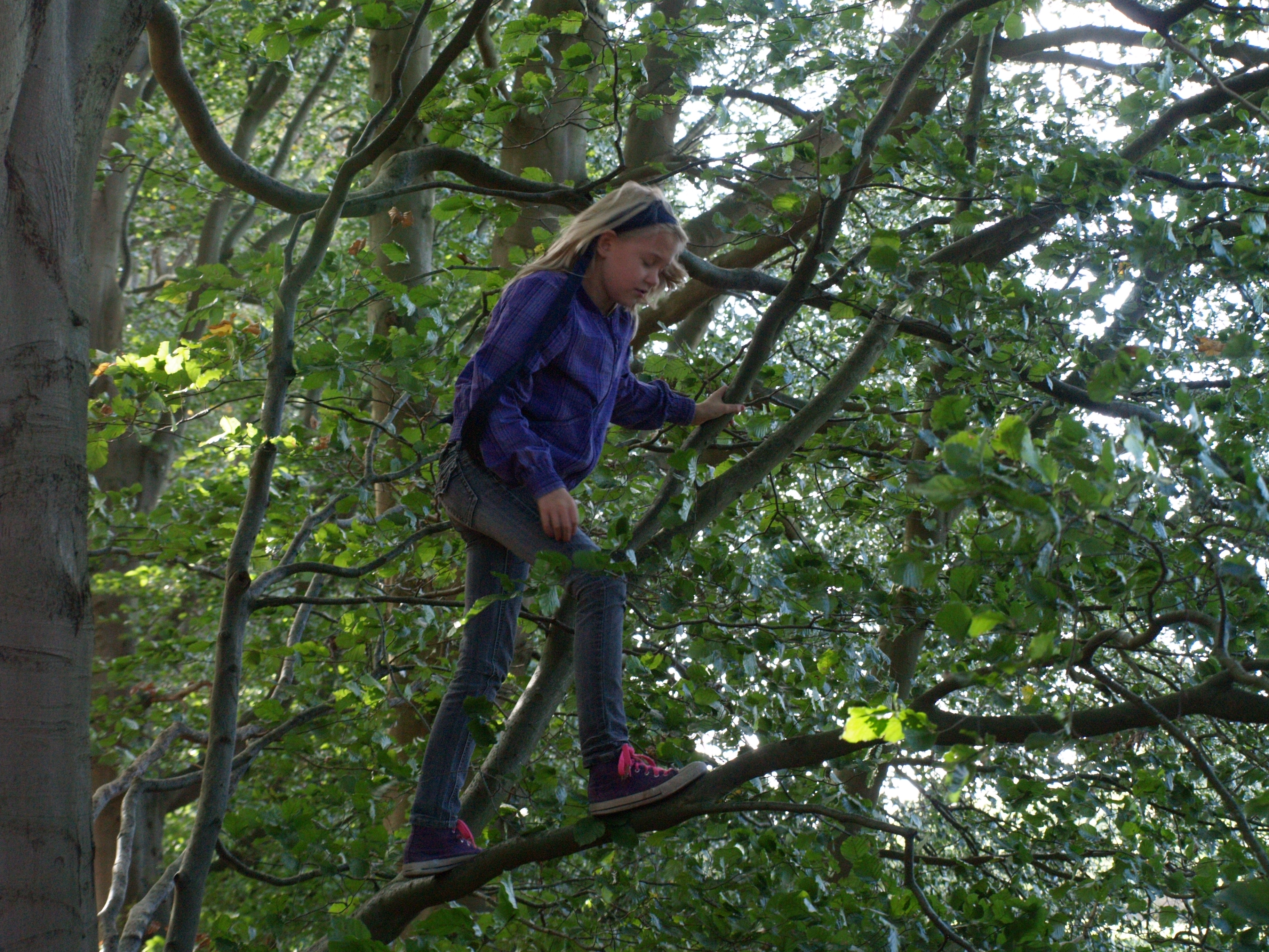 There seem to exist tomboys, but my niece is a true tree girl. Every tree is a object for climbing.